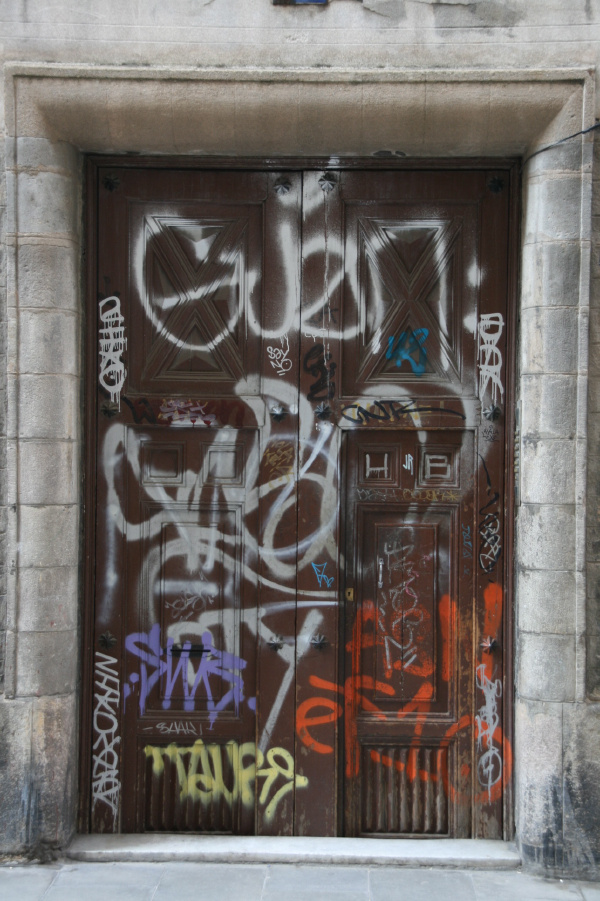 tagged door in barcelona, spain